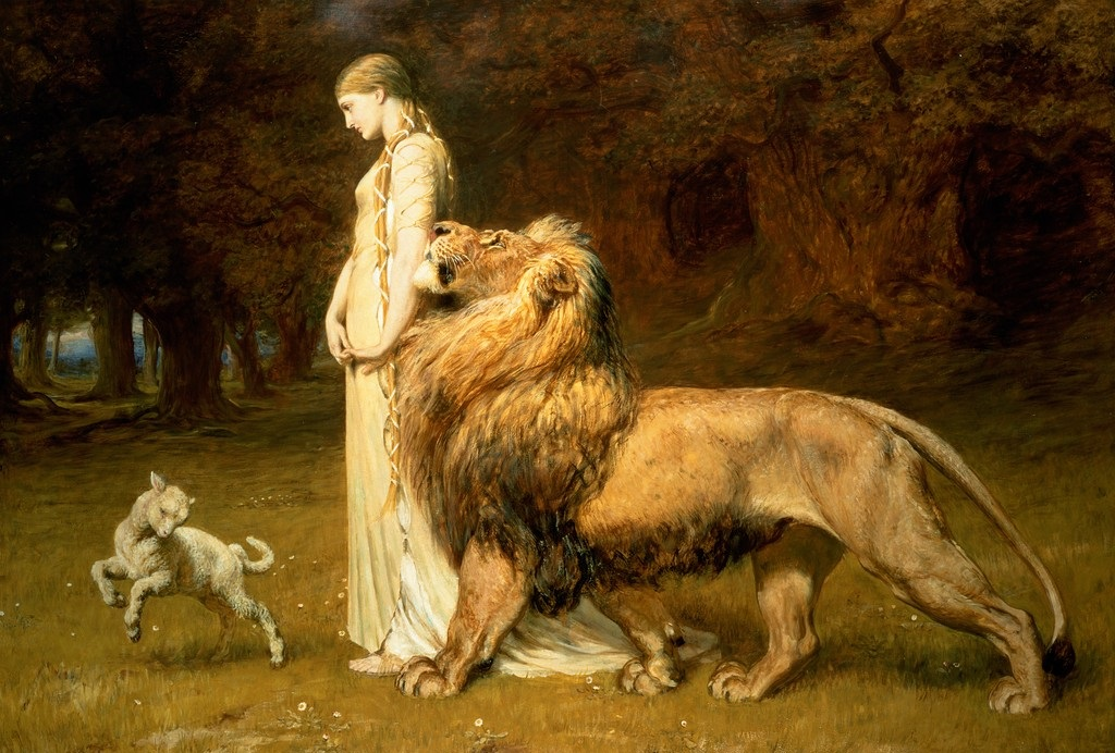 depicting Una of The Faerie Queene